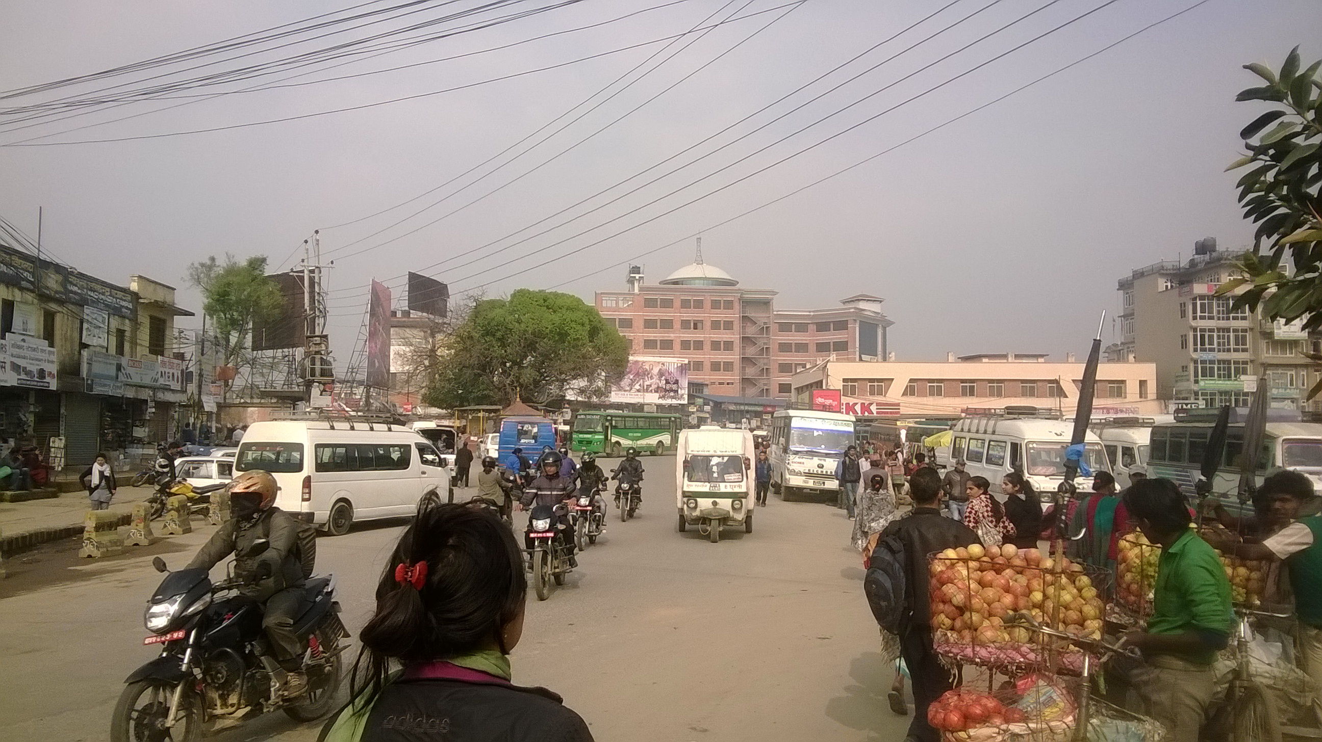 Lagankhel Buspark in 2014. This buspark used to be a pond.